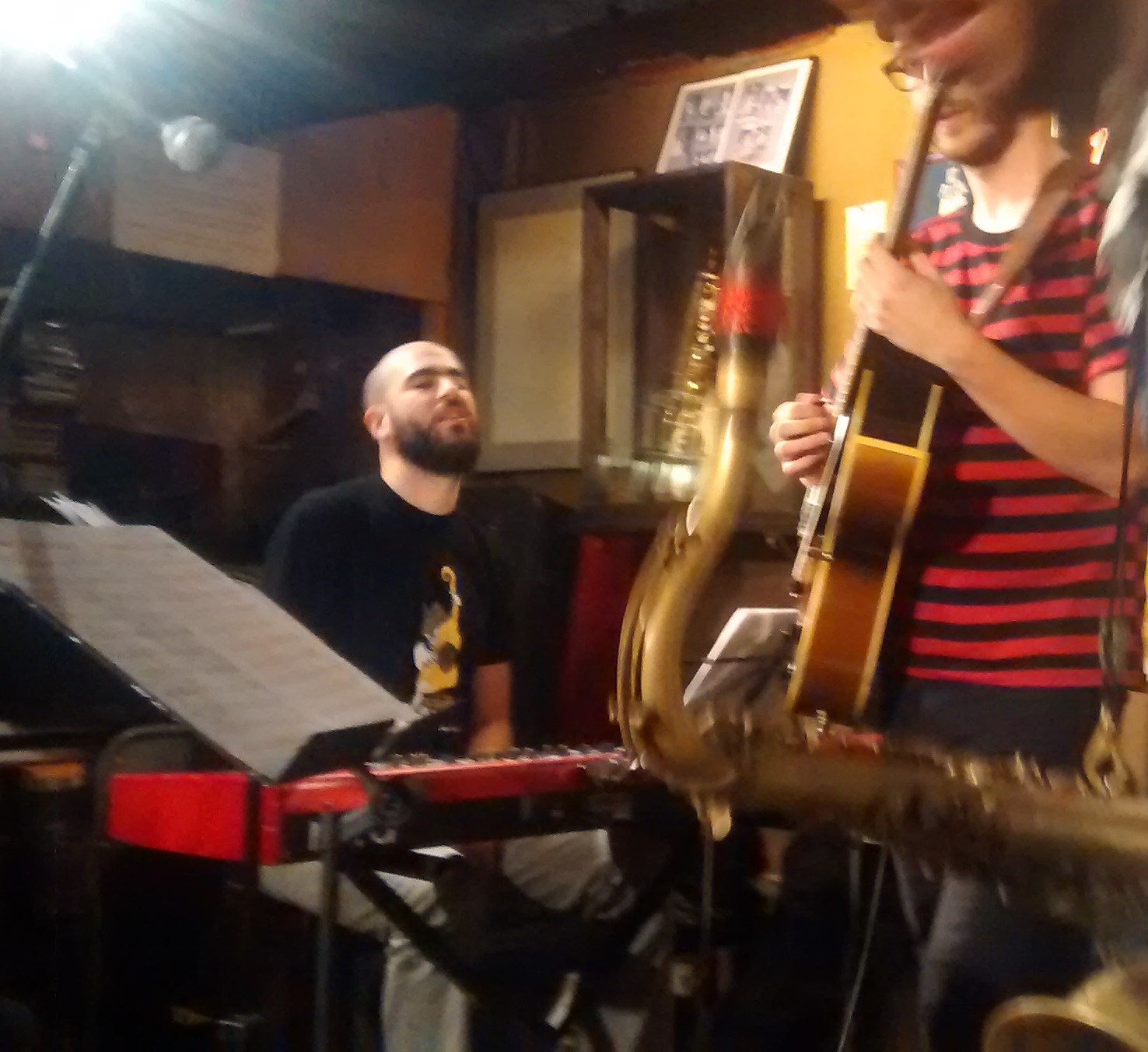 Xan Campos playing with Virxilio da Silva at the Filloa Jazz in A Coruña